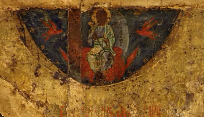 Vethiy Denmi (detail of icon "Annunciation Ustyuzhskoe")